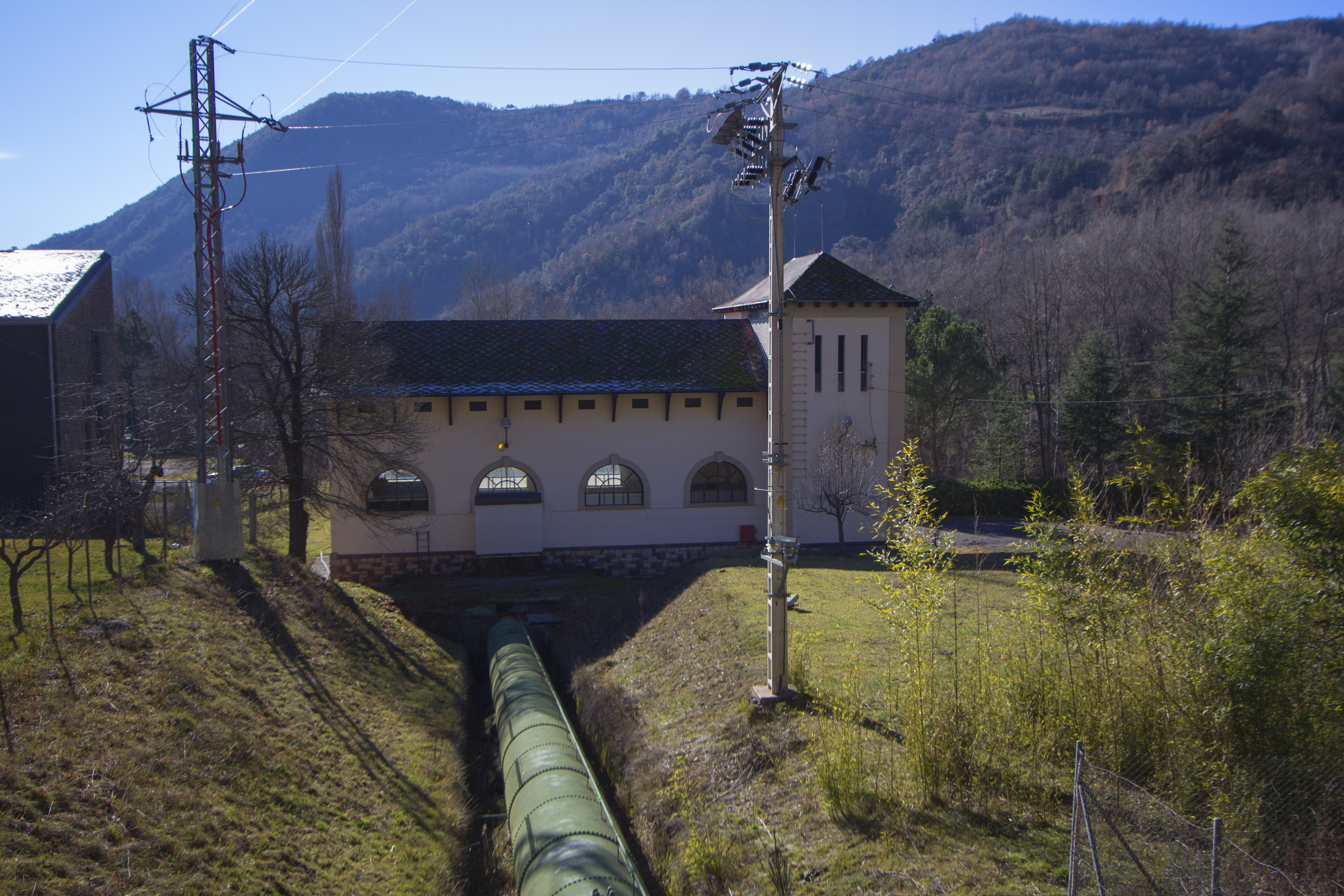 Plana de Mont-ros hydropwer plant. Main bulding and penstock. Plana de Mont-ros (Catalan Pyrenees)